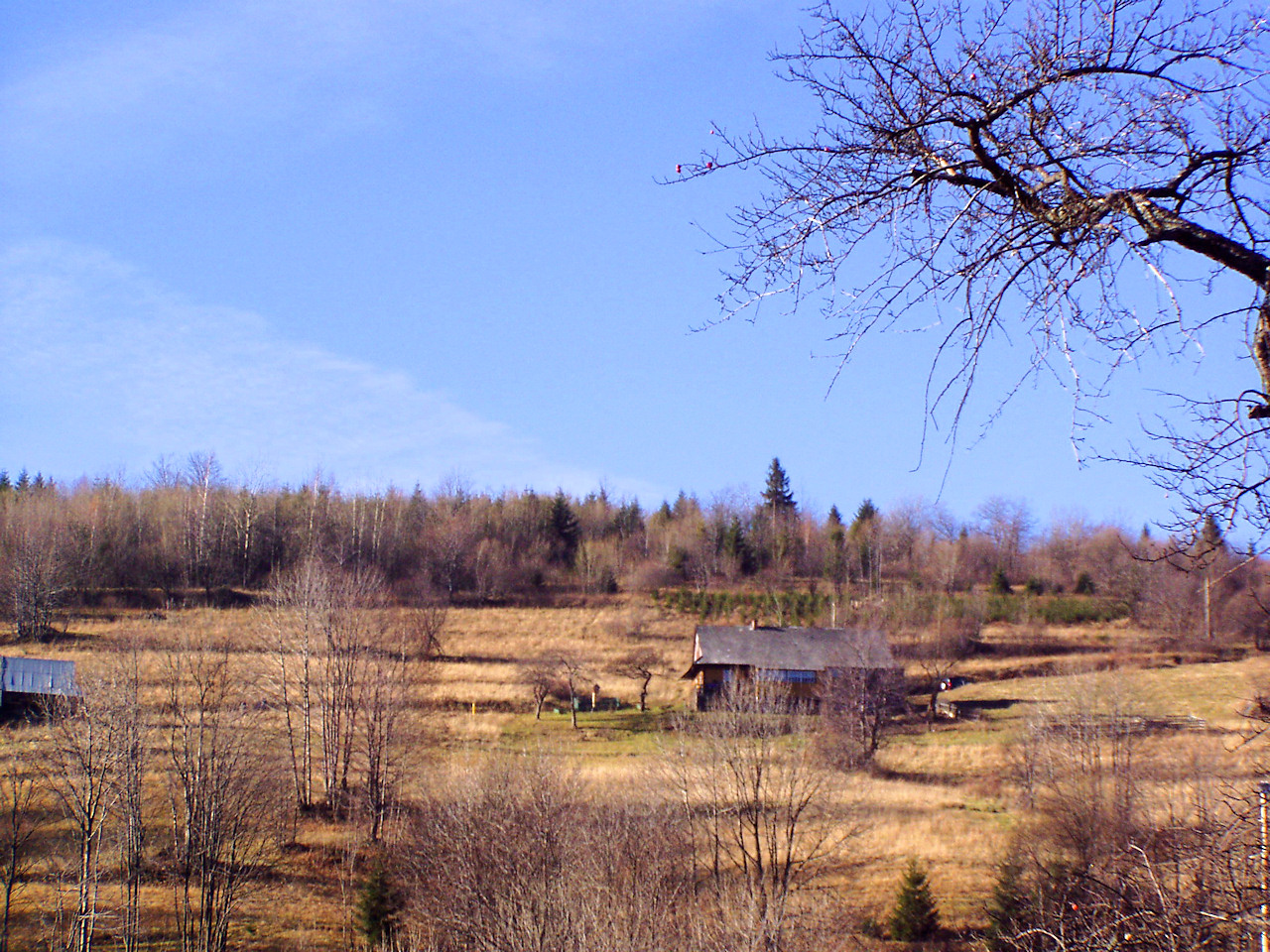 Młada Hora in November, Żywiec Beskids, Poland.